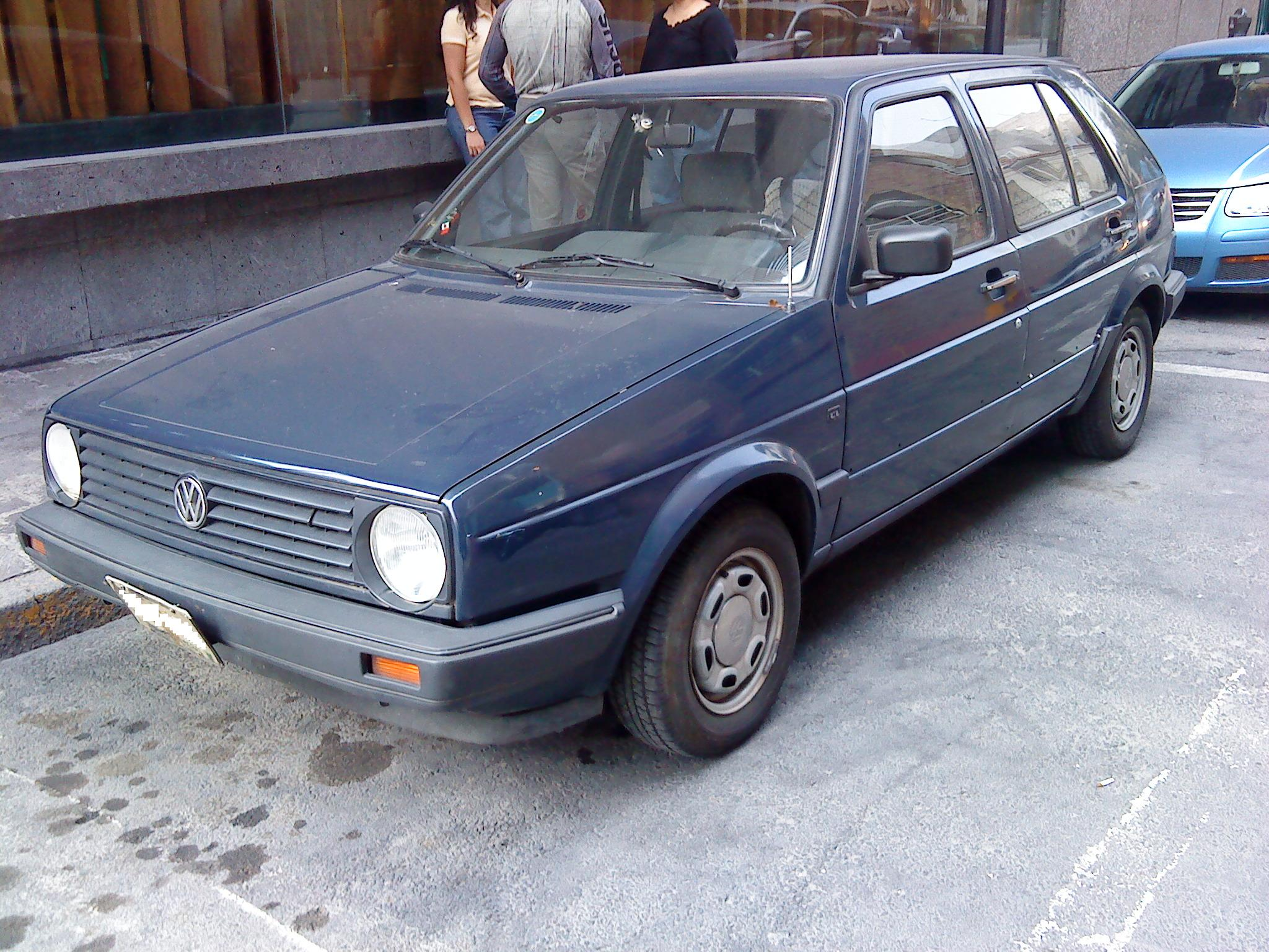 A beautiful 1988 mexican Volkswagen Golf CL